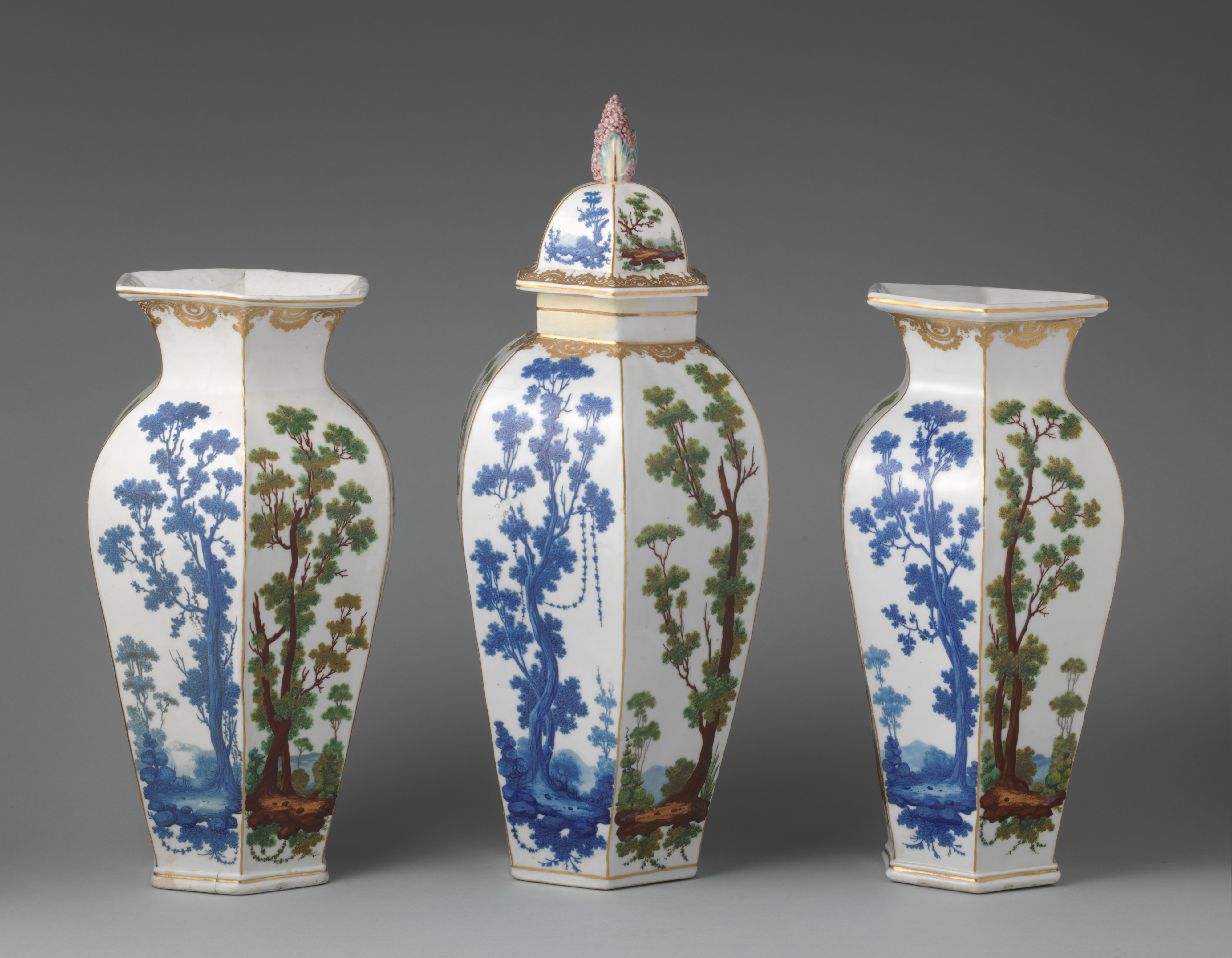 British, Bristol; Vase with cover; Ceramics-Porcelain